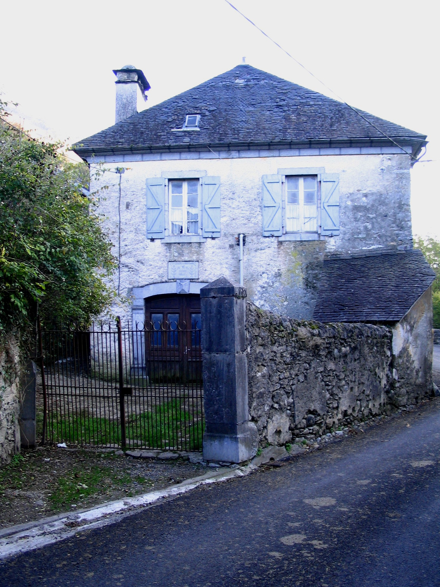 House in the village of Béon in the French Pyrenees.